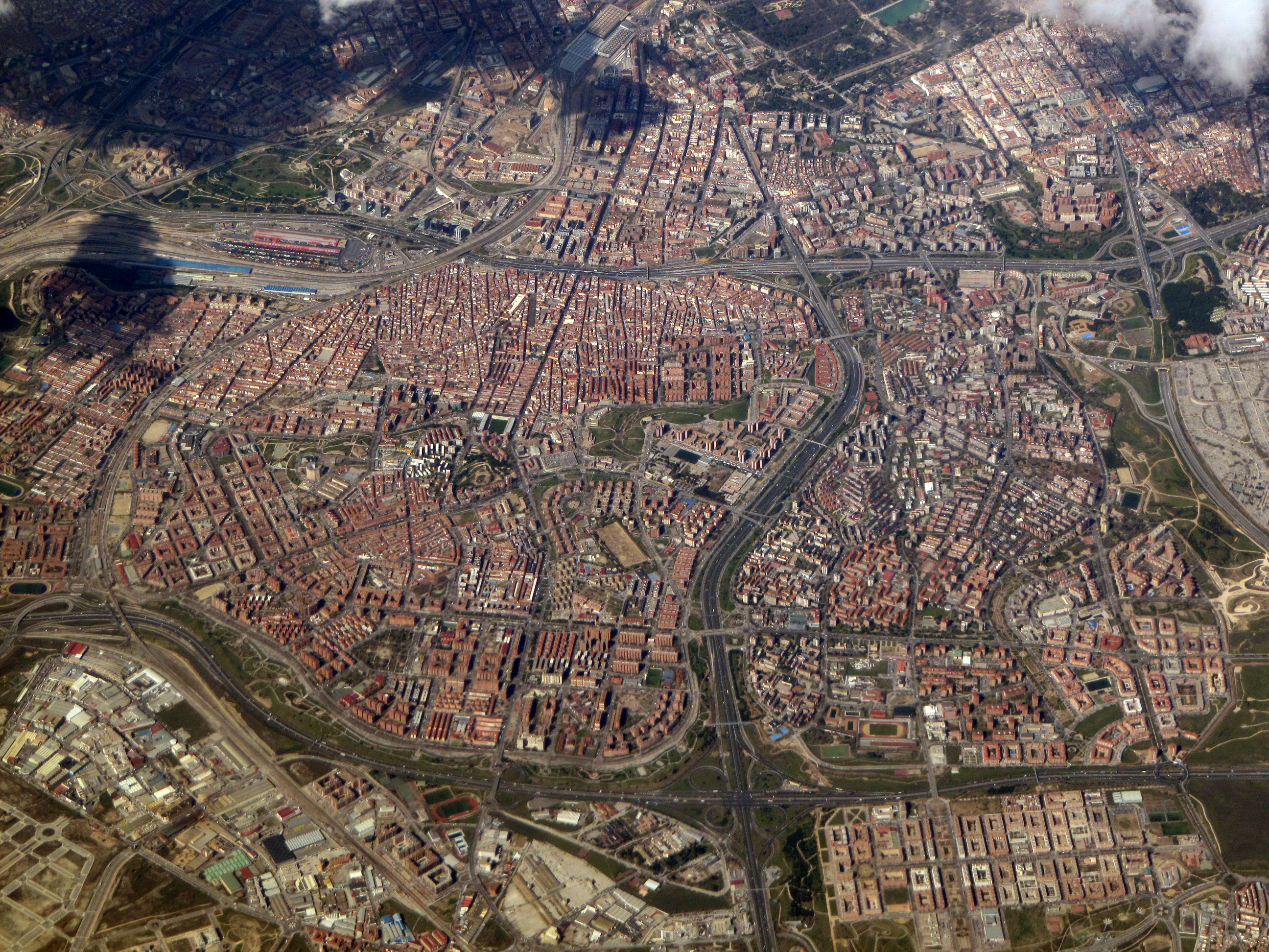 Puente de Vallecas